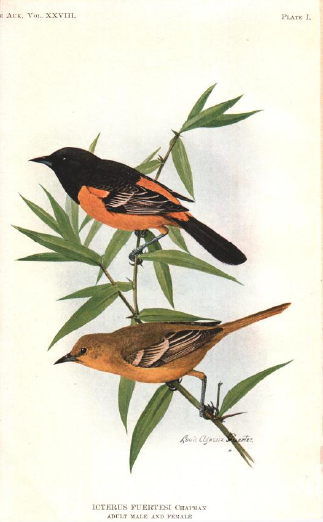 Icterus fuertesi (Chapman) Adult Male and Female